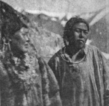 Two native women of Plover (Provideniya) Bay. The original identified them as Chukchi without any attempt to distinguish Chukchi from Yupik. Nelson's later book, the Eskimo about Behring Strait (1900) describes the inhabitants of Plover Bay, observed on this visit, as Eskimo (Yuit). Cropped slightly from original.